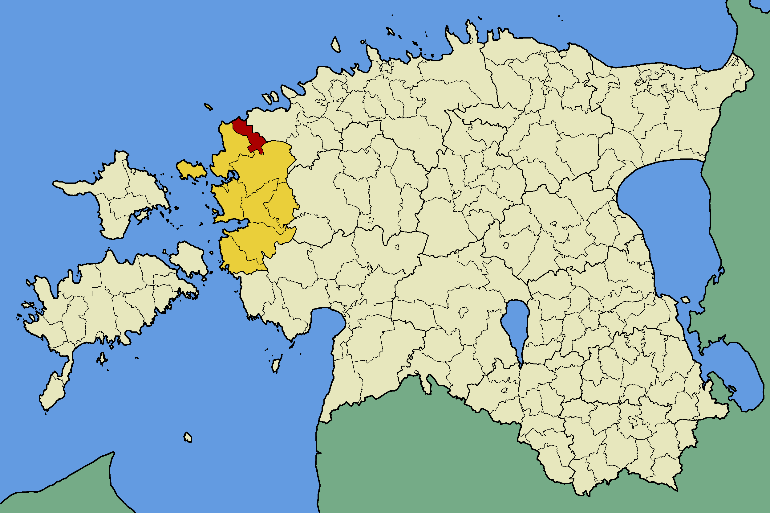 Map of Estonia with borders of municipalities (parishes). Lääne county and Nõva municipality emphasized.